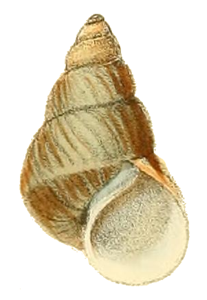 Drawing of an apertural view of a shell of Bellamya aeruginosa from its type description.